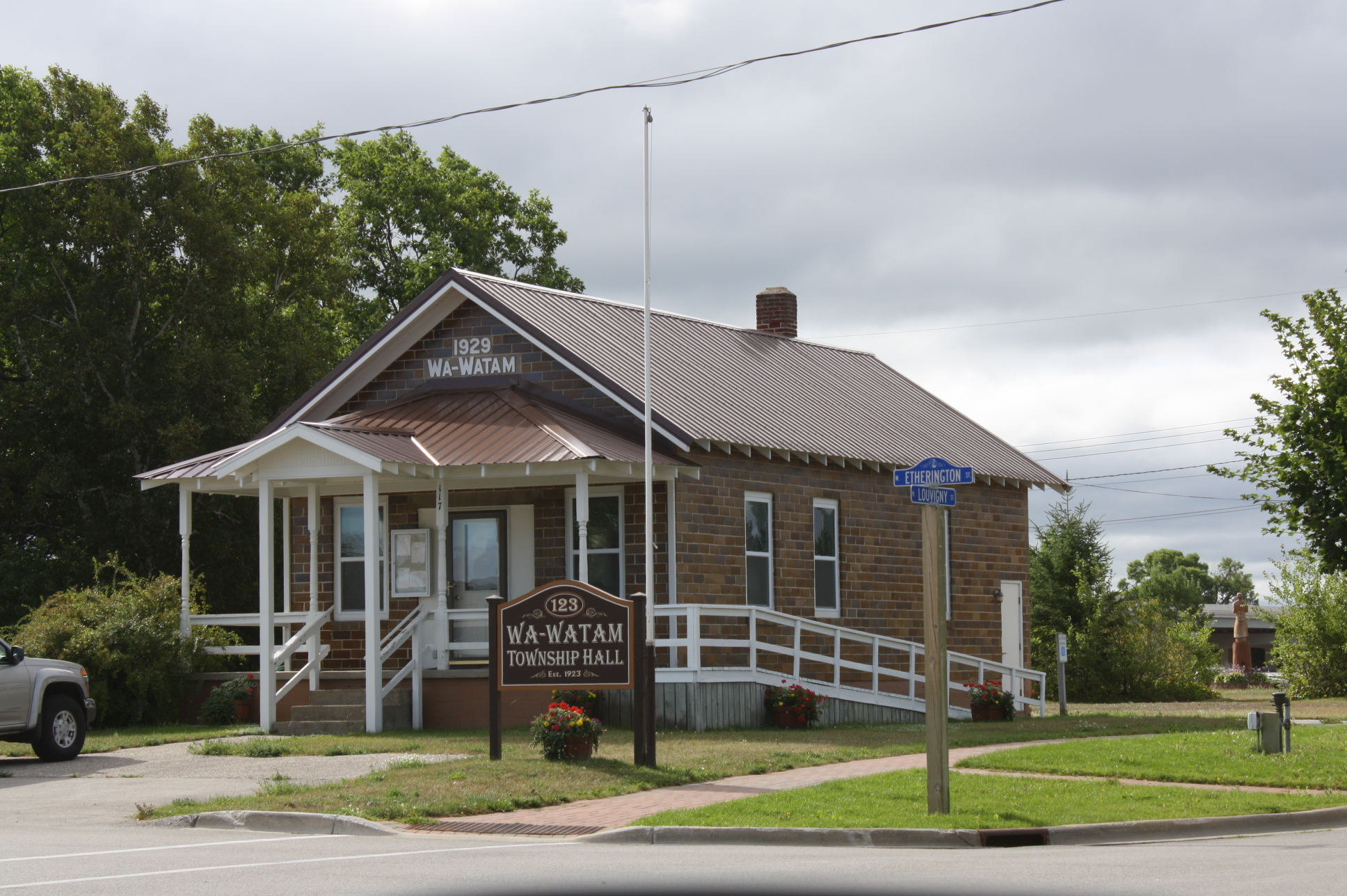 The town hall for the Wawatam Township, Michigan.